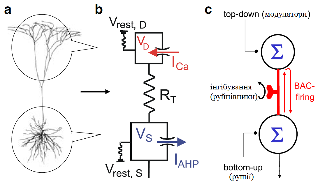 L5 pyramidal neuron and BAC firing. Adapted from "The response of cortical neurons to in vivo-like input current: theory and experiment: II. Time-varying and spatially distributed inputs" by Giugliano M., Camera G., Fusi S., and Senn W.